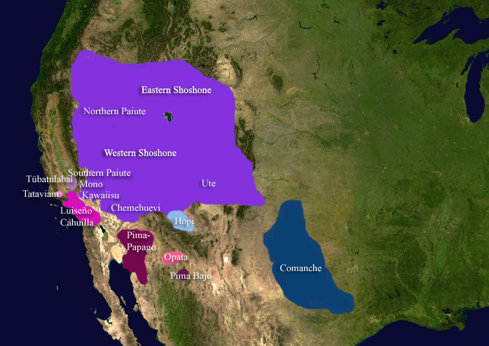 Map of the Utoaztecan languages spoken in the USA at the time of first European contact